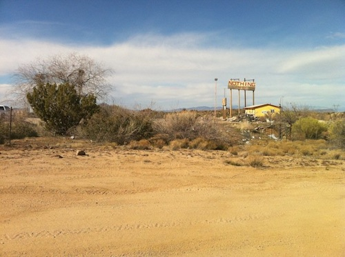 Town of Nothing, Arizona in January 2011